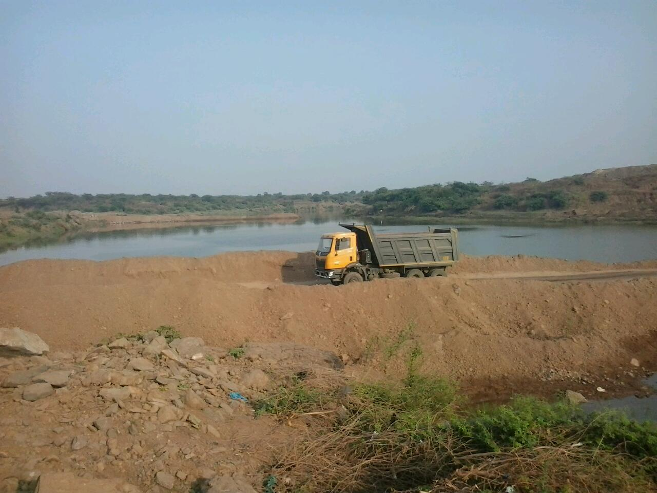 The work of Jigaon Project, a dam on river Purna near Jigaon, under construction.